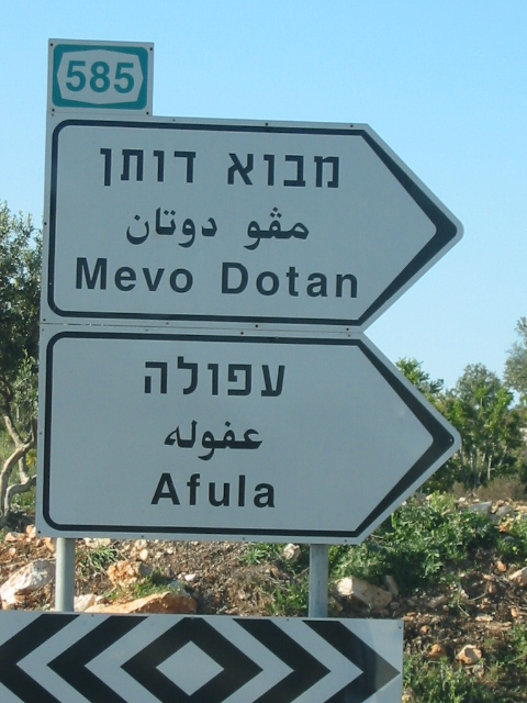 Road sign leading to Mevo Dotan